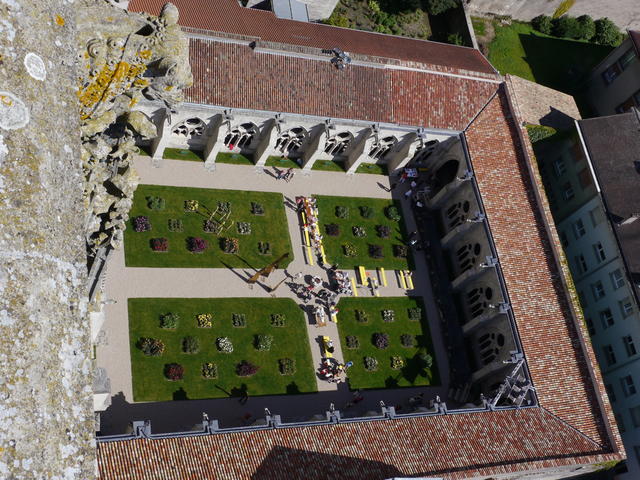 Cloister from Saint-Etienne Cathedral in Toul, Lorraine, France